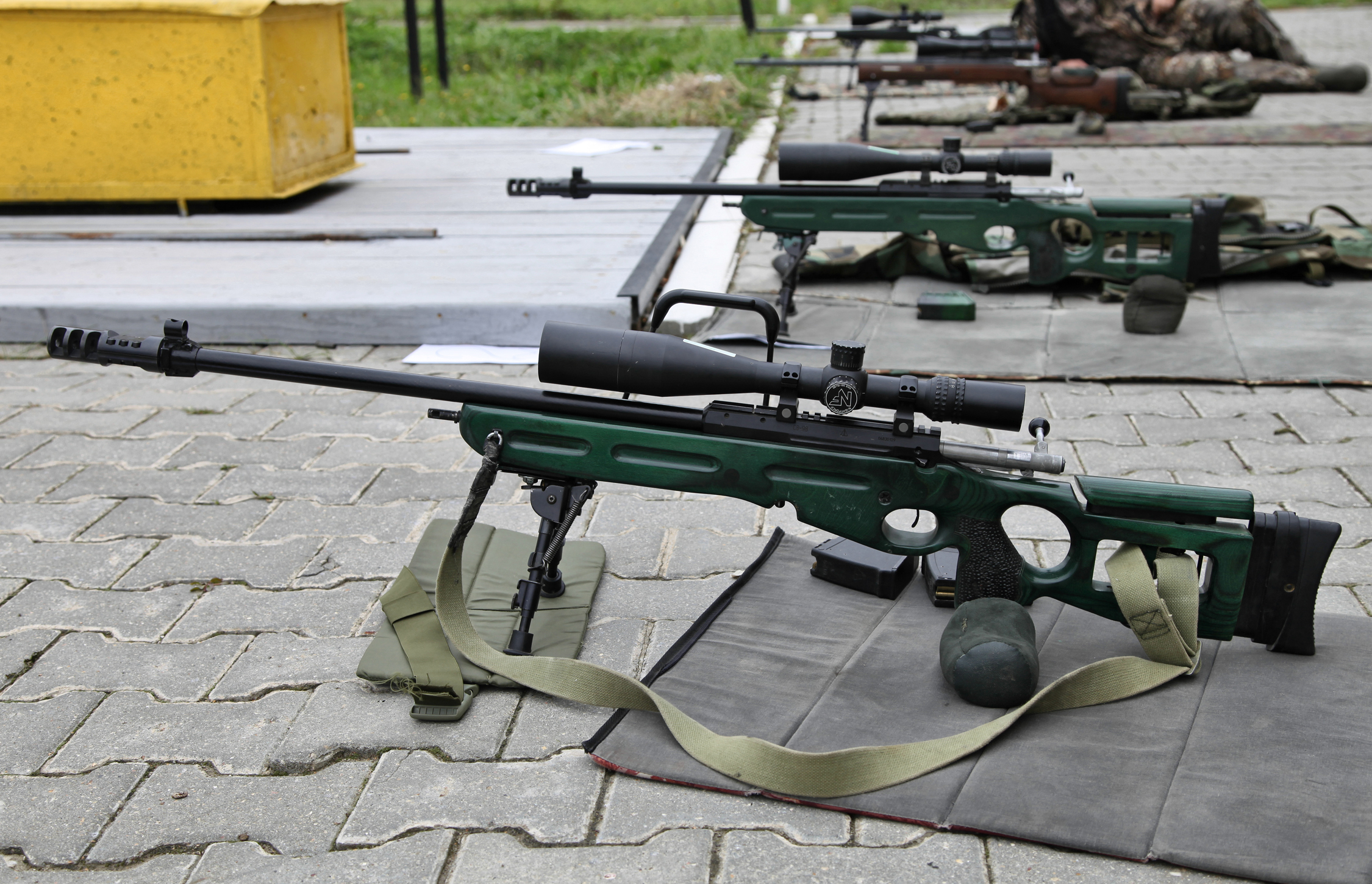 7,62mm sniper rifle SV-98 at Sniping competition for The Armourers Day